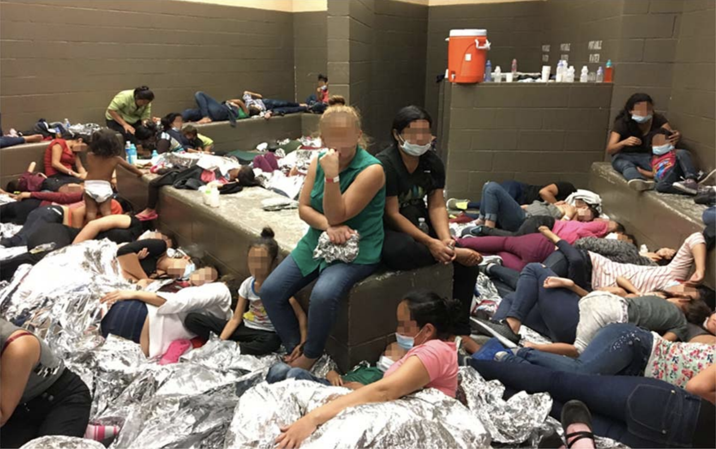 Overcrowding of families observed by OIG on June 11, 2019, at Border Patrol’s Weslaco, TX, Station. Faces were digitally obscured by OIG.